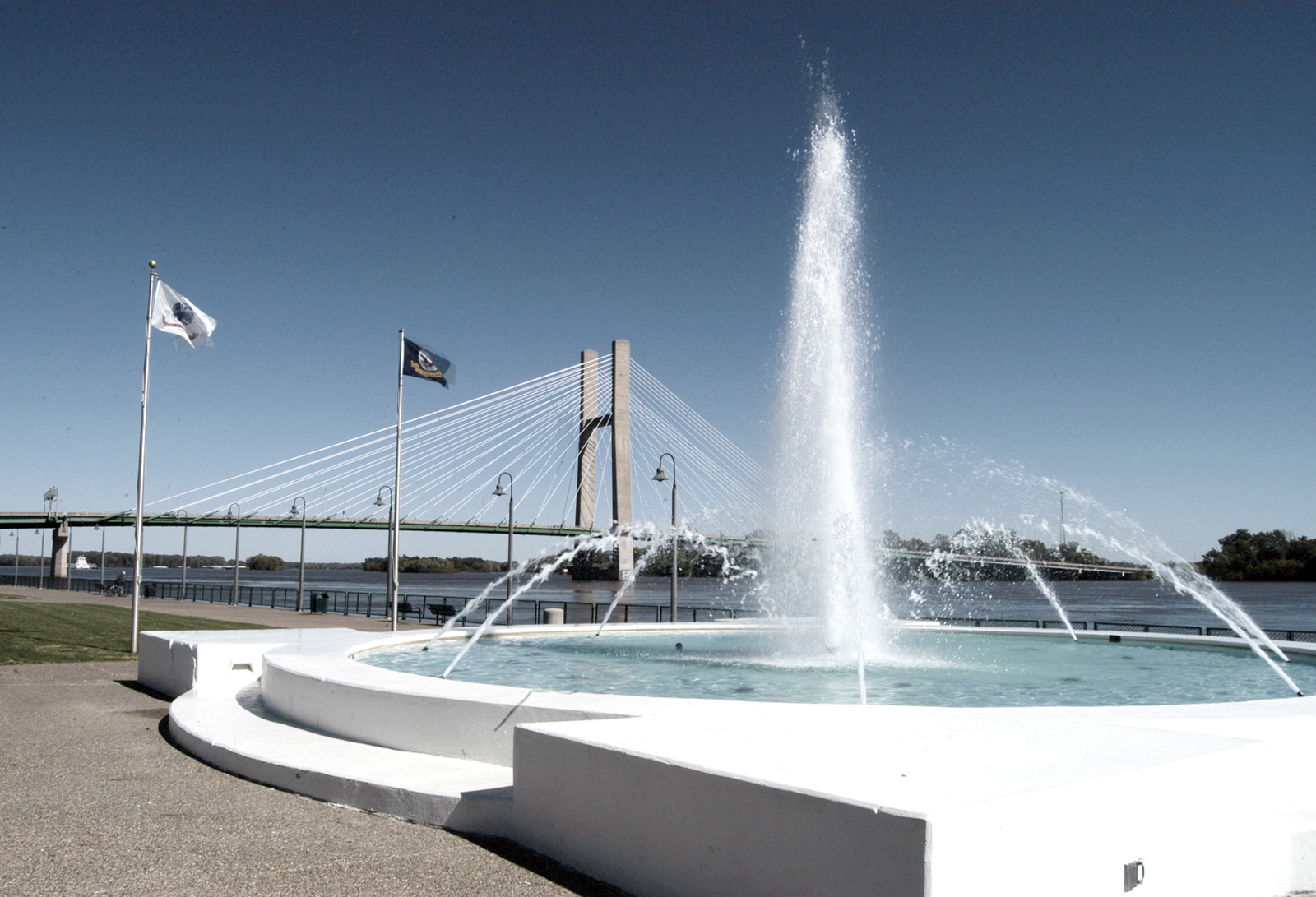 Great River Bridge crossing Mississippi River at Burlington, Iowa, United States.